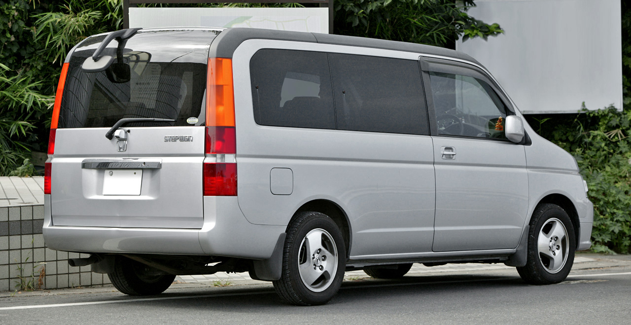 Second generation Honda Step WGN